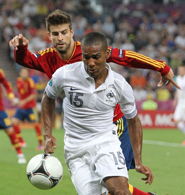 Florent Malouda at Euro 2012 match Spain-France